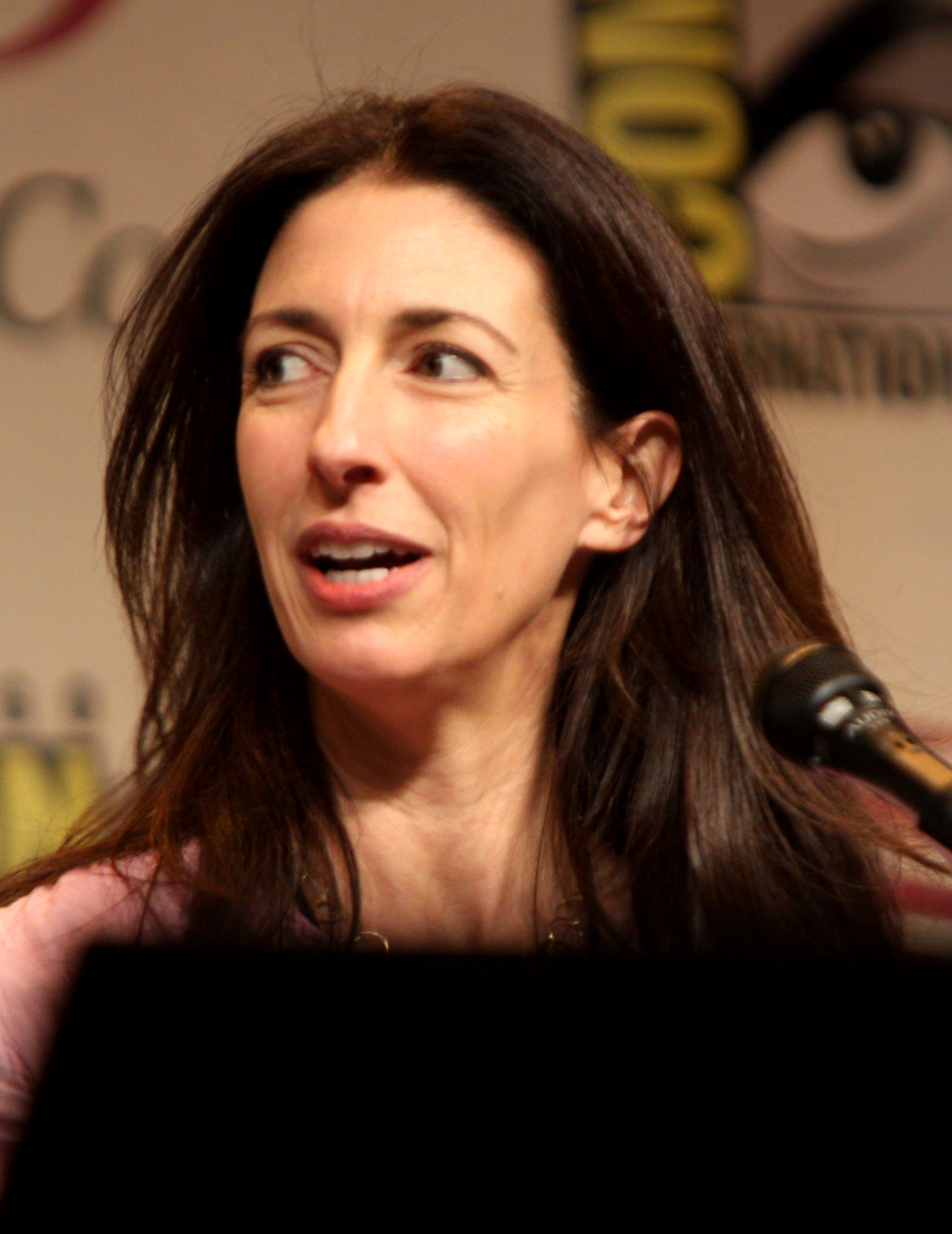 Jennifer M. Johnson speaking at Wondercon 2012 in Anaheim, California on March 18, 2012.